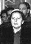 Ruthild Hahne at an exhibition in 1951